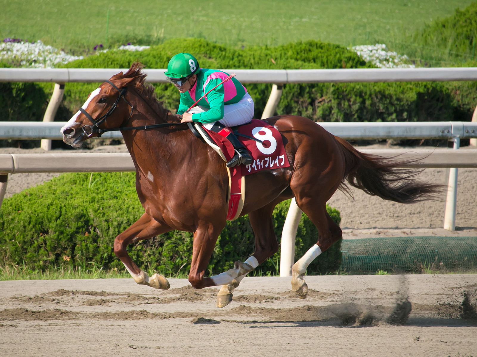 K T Brave (Racehorse of Japan).